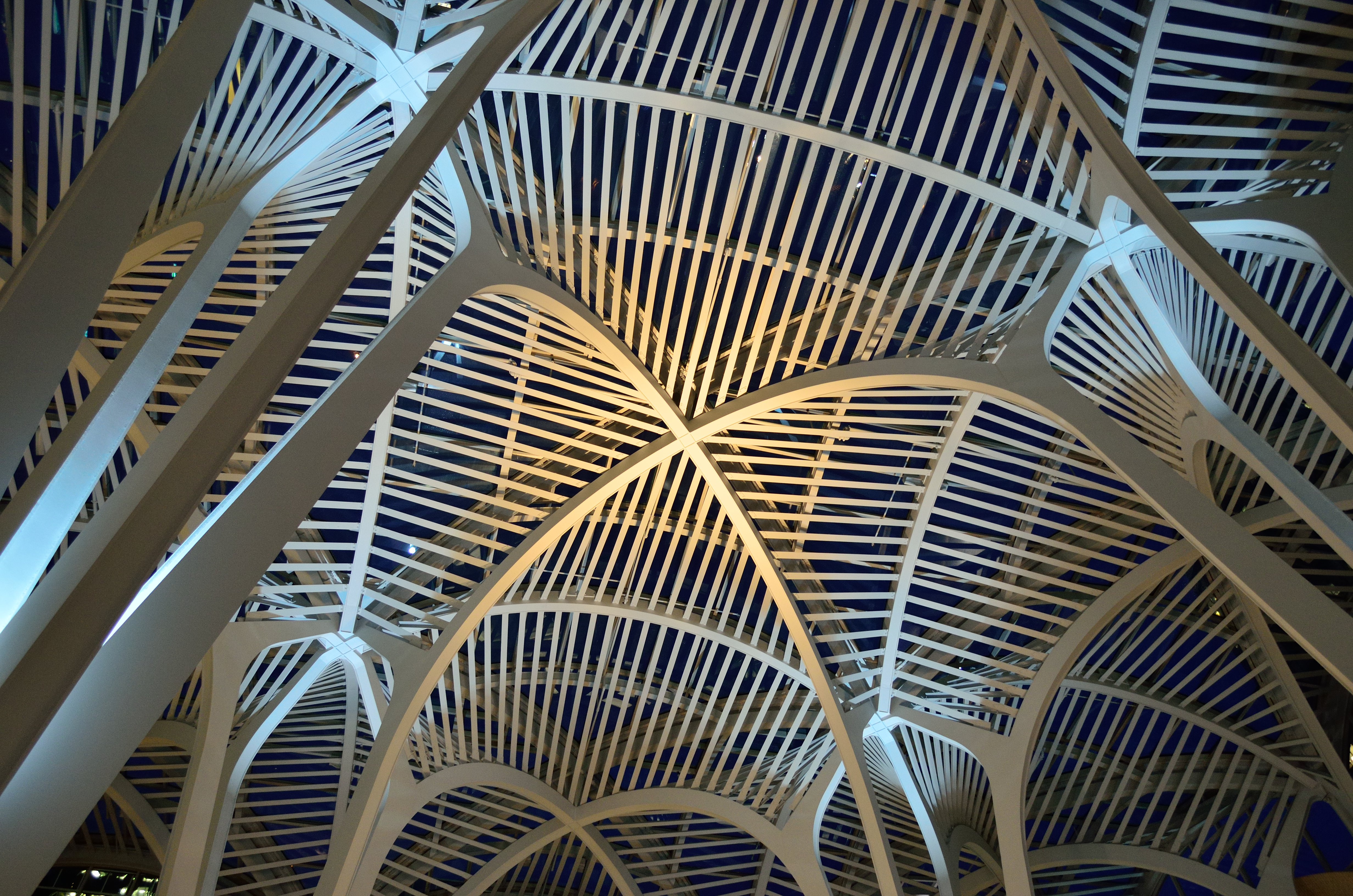 Sam Pollock Square in the Brookfield Place.